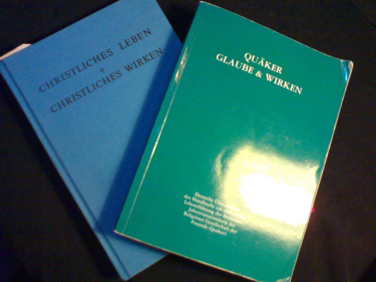 Cover of to german Quaker books. Left by 1951, and right by 2002